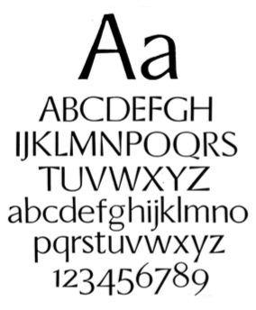 Cantoria typeface (1961) by Bronislav Malý